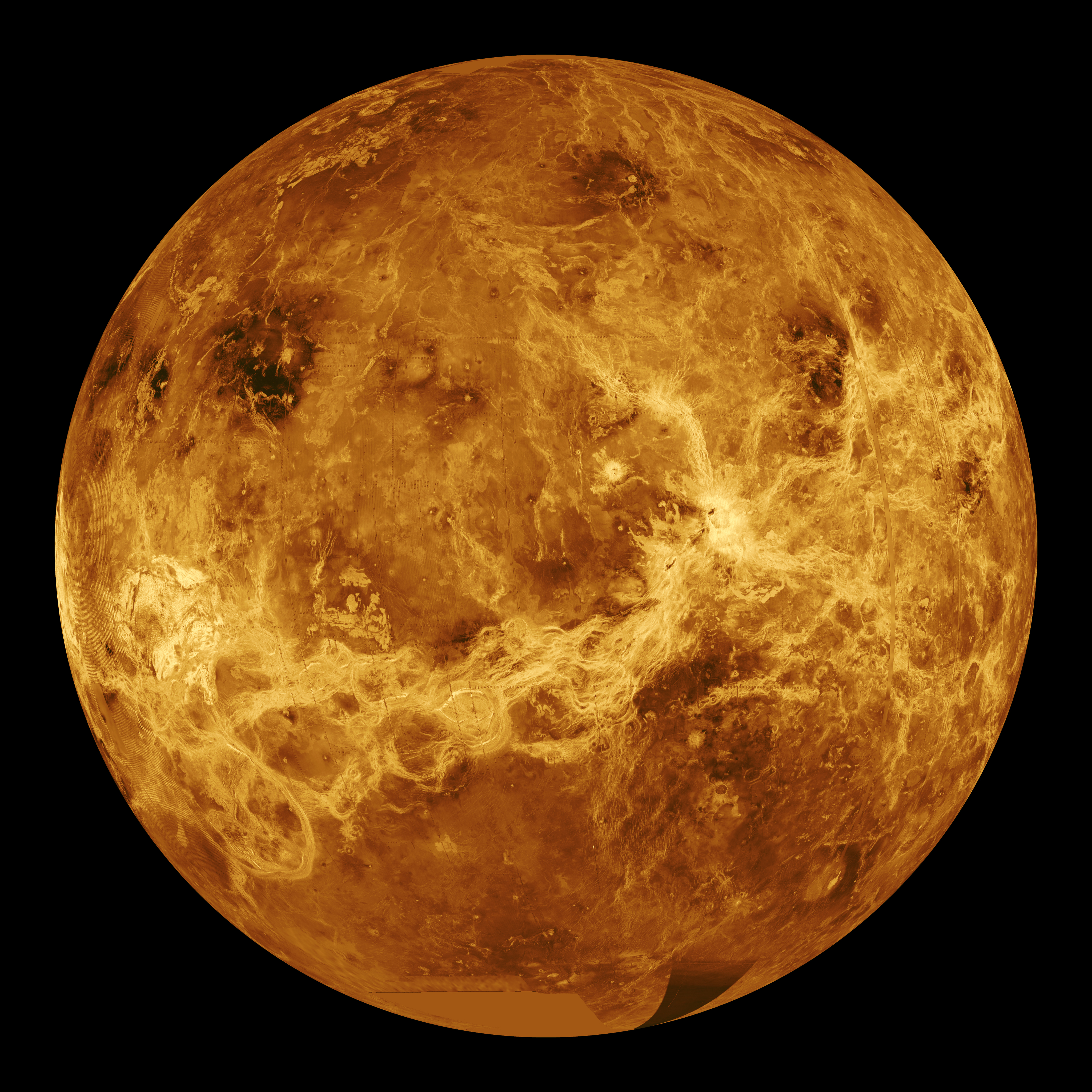 This global view of the surface of Venus is centered at 180 degrees east longitude. Magellan synthetic aperture radar mosaics from the first cycle of Magellan mapping are mapped onto a computer-simulated globe to create this image. Data gaps are filled with Pioneer Venus Orbiter data, or a constant mid-range value. Simulated color is used to enhance small-scale structure. The simulated hues are based on color images recorded by the Soviet Venera 13 and 14 spacecraft. The image was produced by the Solar System Visualization project and the Magellan science team at the JPL Multimission Image Processing Laboratory and is a single frame from a video released at the October 29, 1991, JPL news conference. It is important to note that Venus is completely shrouded in clouds. A bright elongated region in the center is Aphrodite Terra.